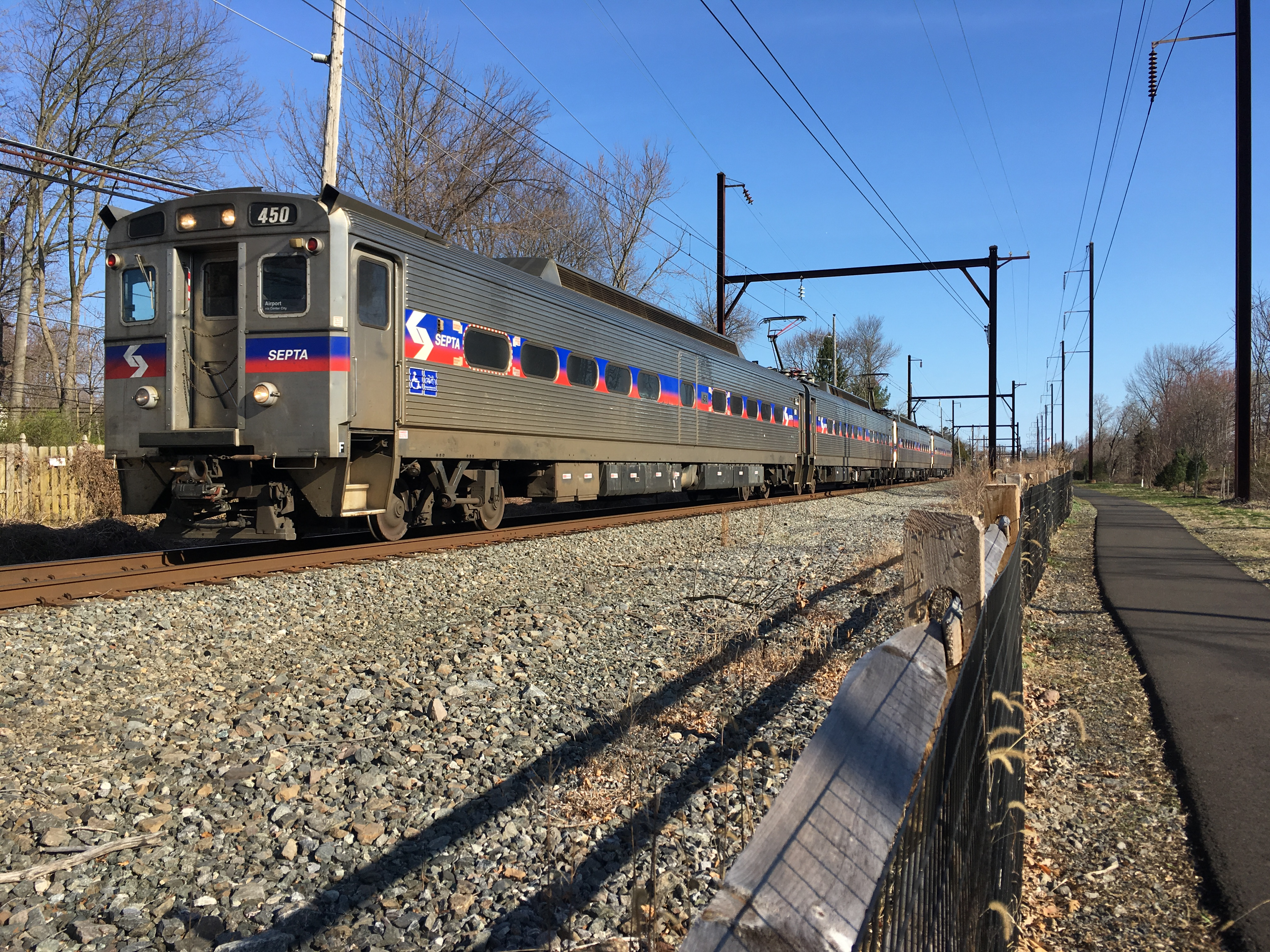 SEPTA Silverliner IV 450 leads a Warminster Line train bound for Center City Philadelphia through Hatboro, Pennsylvania